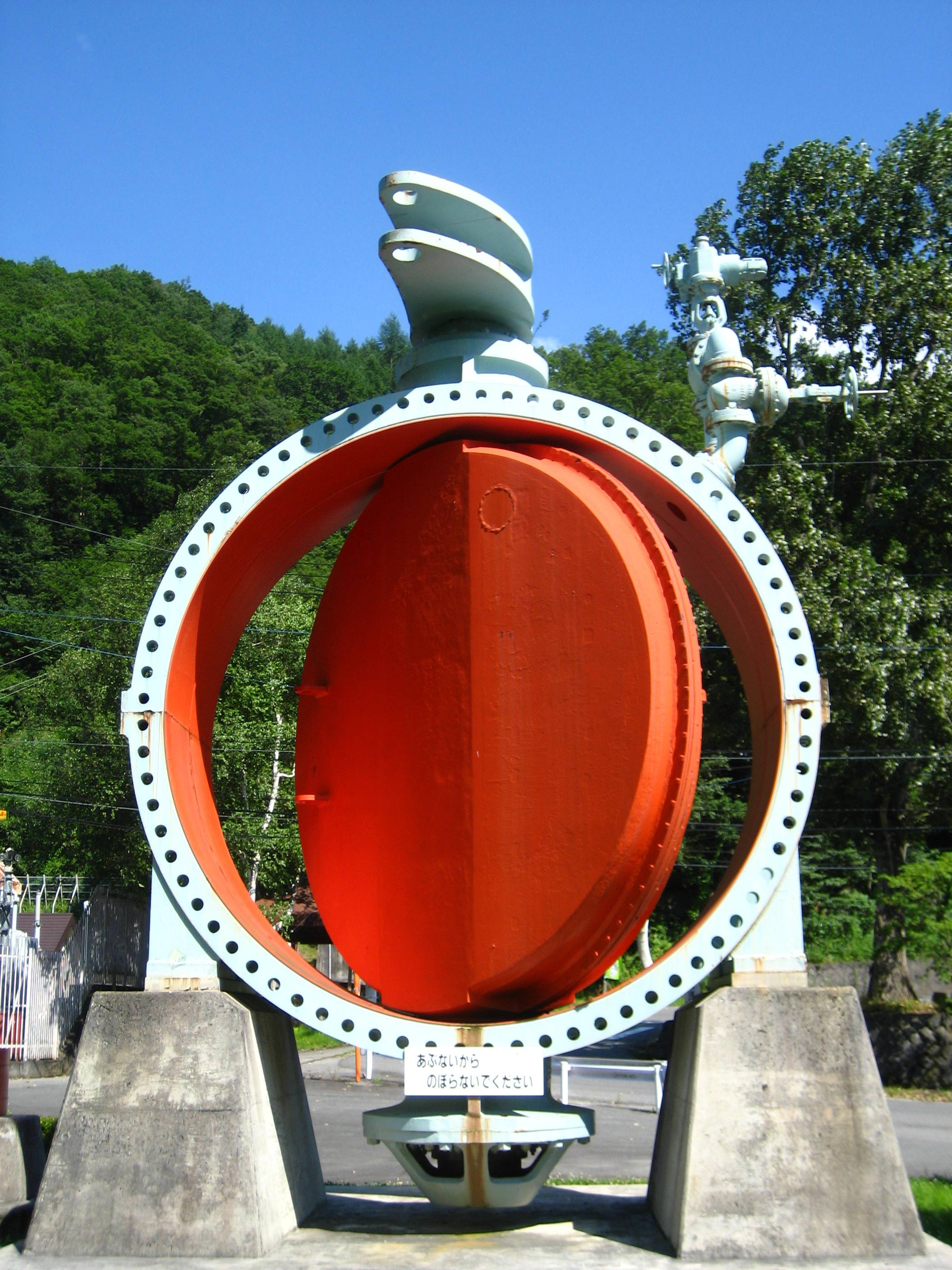 Yagisawa Power Station inlet valve (TEPCO Power Source PR Center Sudagai).